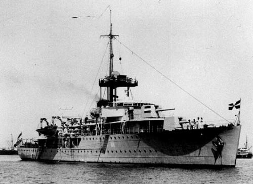 Dutch Sloop Johan Maurits van Nassau at Gibraltar during the Spanish Civil War